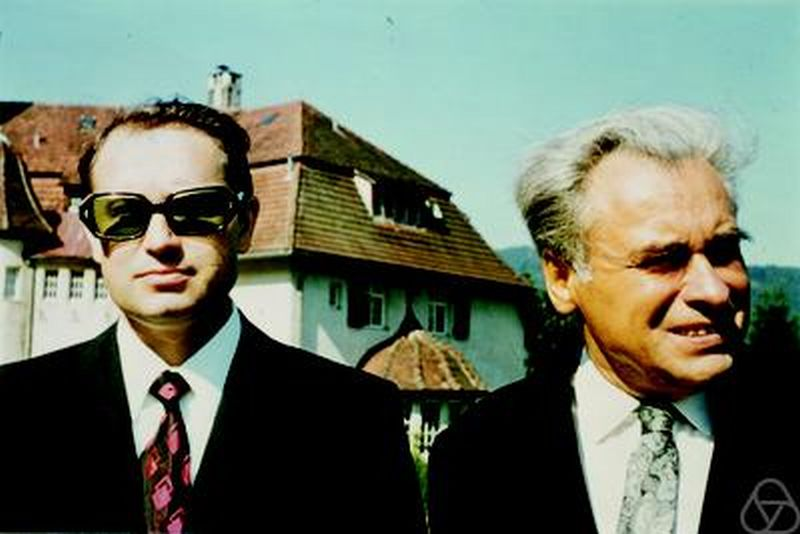 Andrei Shidlovsky (right), Vladimir Sprindzuk, 1974